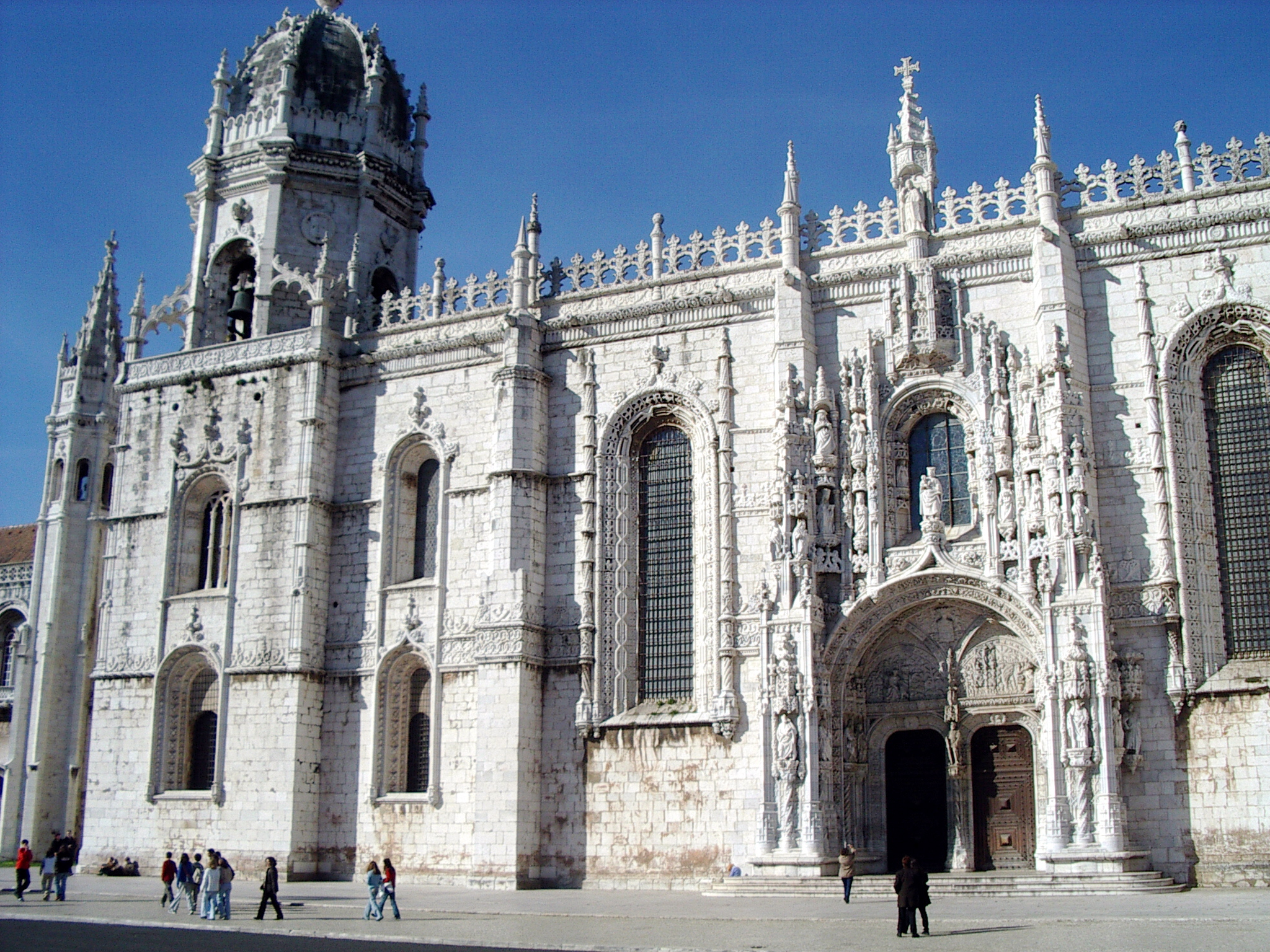 The amazingly decorated southern front of the monastery.